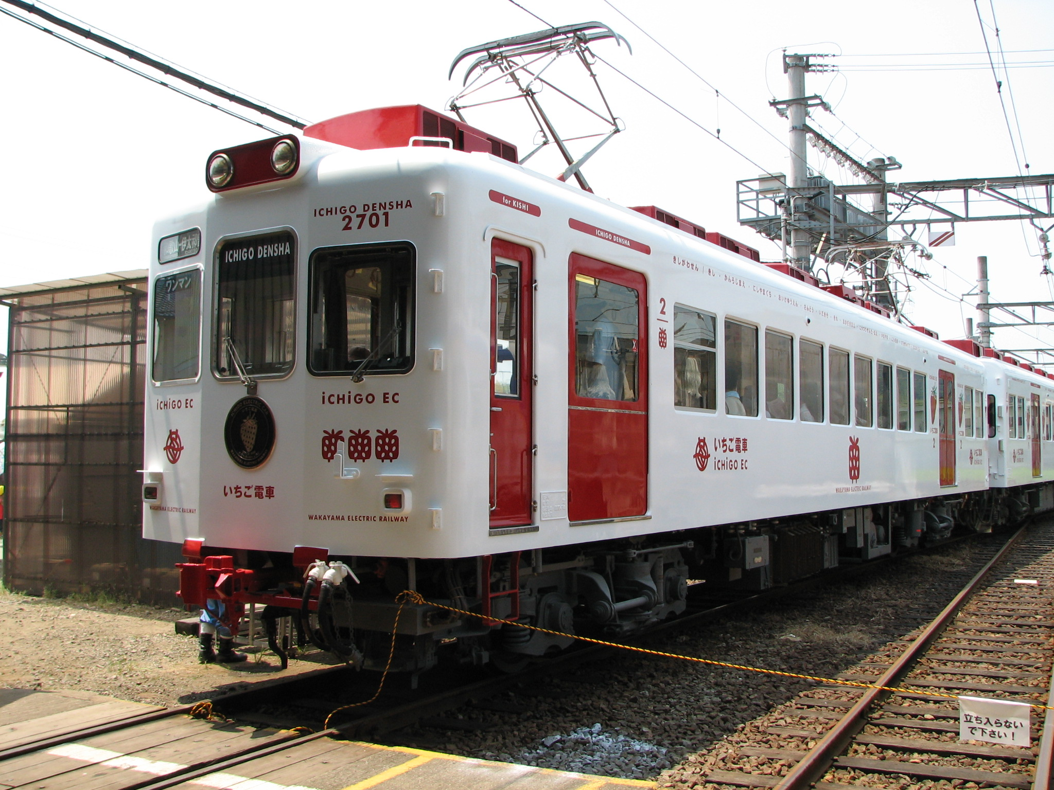 "Ichigo Electric Car", Wakayama Electric Railway 和歌山電鐵いちご電車（伊太祁曽駅構内車庫にて撮影）